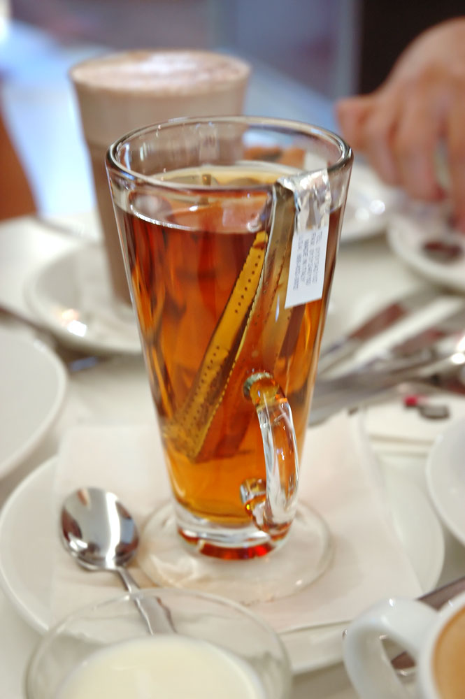 Nice cuppa from Bondi Junction Westfield's 'food precinct' - fancy name for a fancier-than-thou food court. They even use a fancy tea bag!